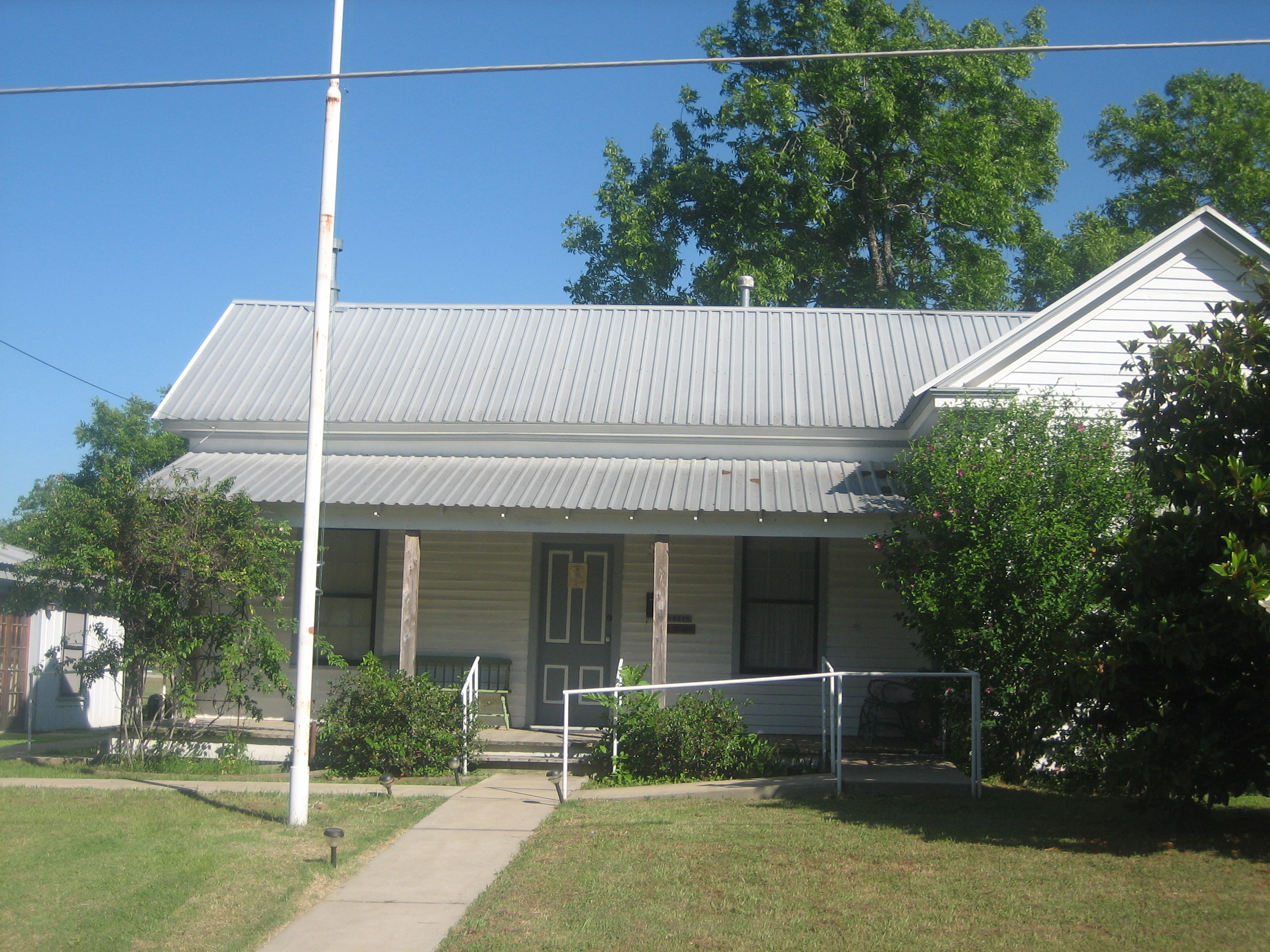 I took photo on May 19, 2009.Billy Hathorn (talk) 03:02, 31 May 2009 (UTC)